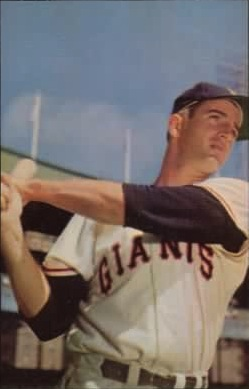 New York Giants outfielder Don Mueller.